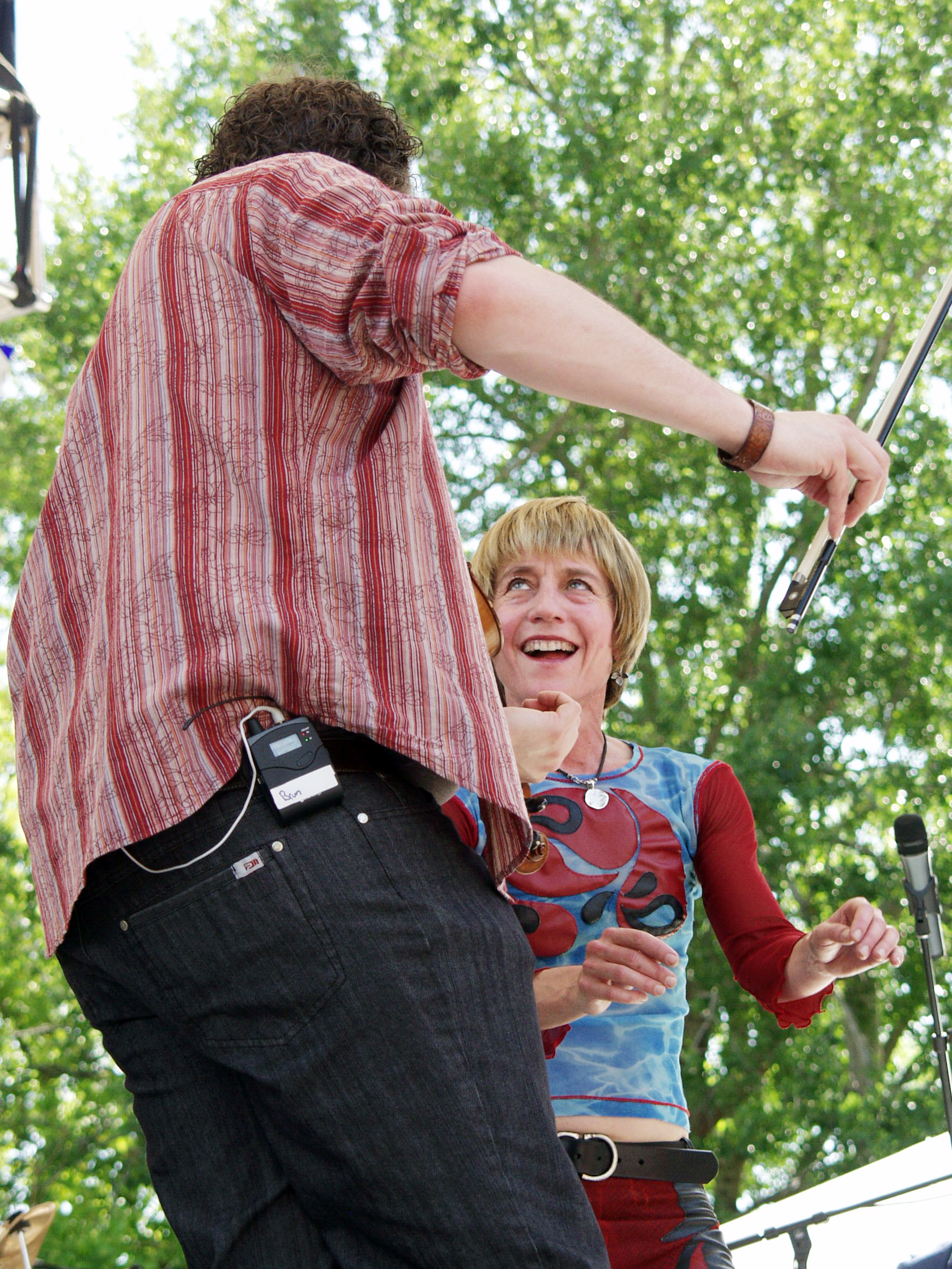 Fiddler and dancer (Sandy Silva) from La Bottine Souriante, performing at the 2006 Festival International de Louisiane.